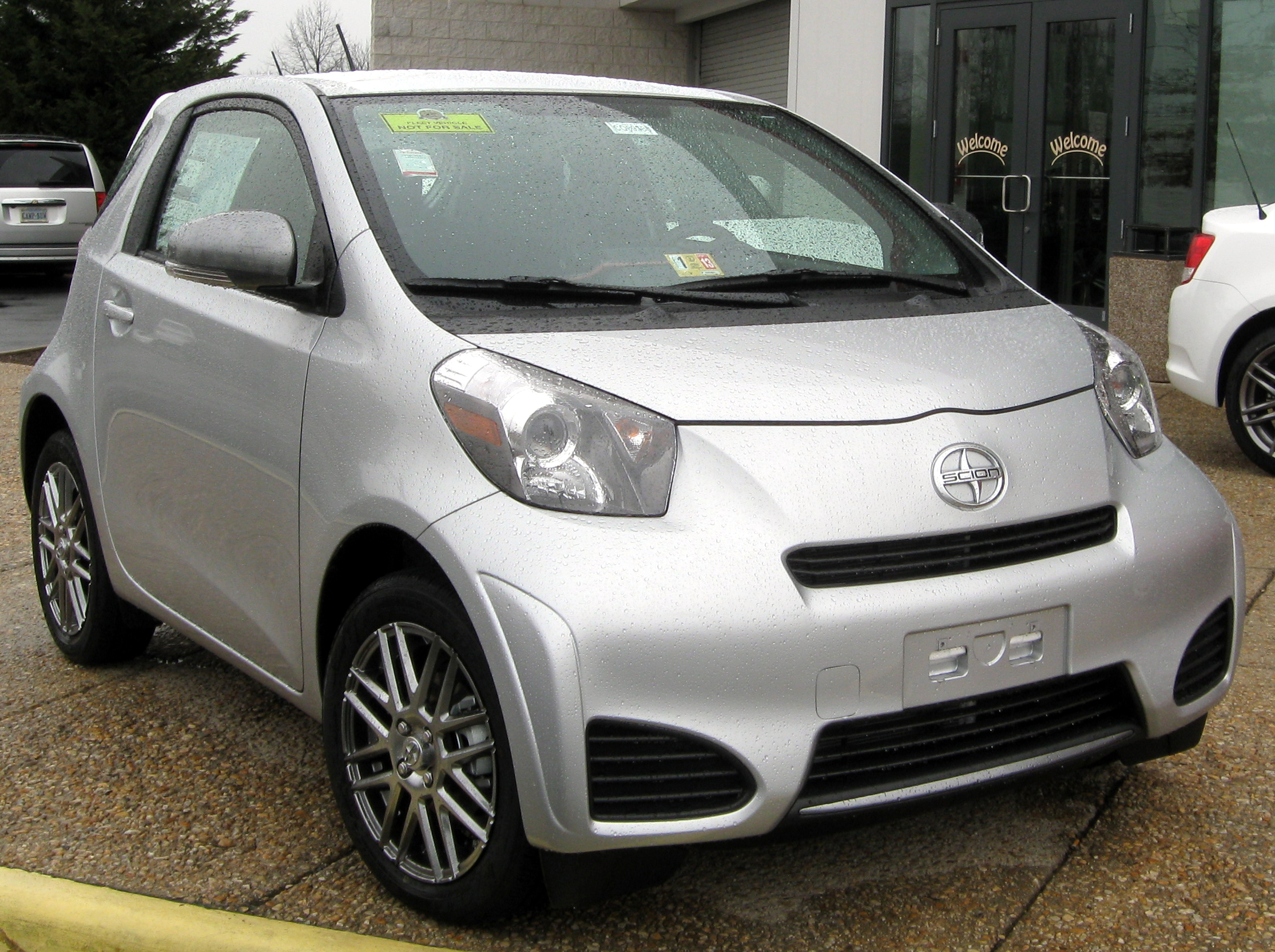 2012 Scion iQ photographed in Chantilly, Virginia, USA.